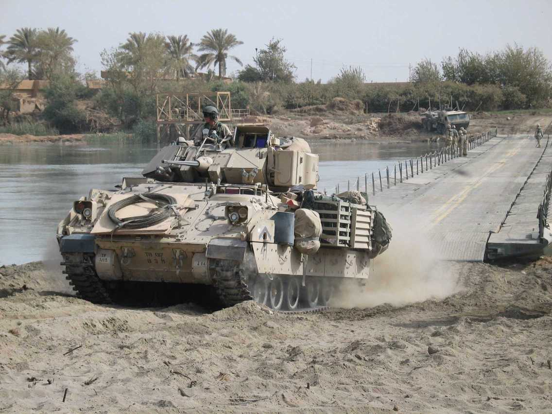 Ribbon assault float bridge deployed by 299th Engineer Company at Objective Peach.